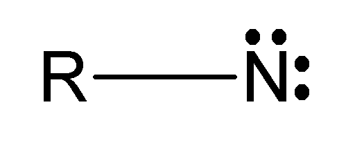 High-resolution black/white .PNG made with ChemSketch and Photoshop — see WikiProject Chemistry - structure drawing for detailed instructions. Please drop me a note if you need the source file. Category:Chemical structures (Original text: Chemical structure of Nitrene)